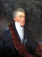 Nicholas Fish (1758-1833) painted oil portrait circa 1820-1830